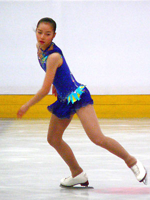 Sin Na-Hee during her long program at the 2006 Junior Grand Prix event in The Hague, Netherlands